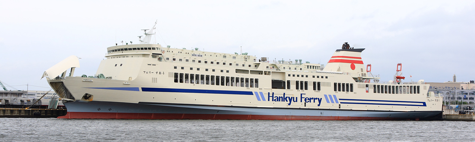 The Ferry SUO handring by Hankyu Ferry Co., Ltd IMO Number: 9117363 MMSI Number: 431300346 Callsign: JJ3920 Length: 189 m Beam: 27 m